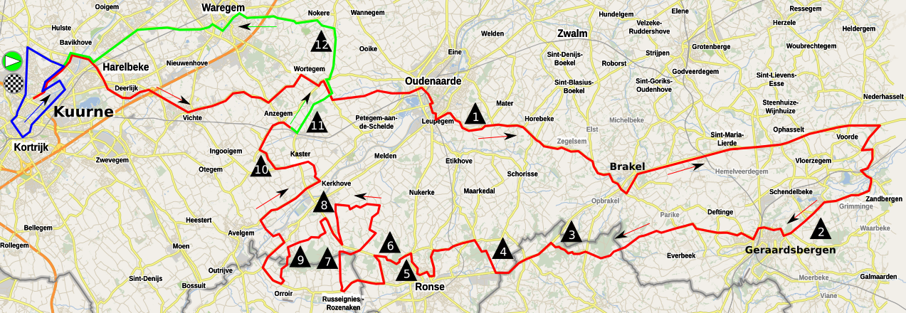 Overview map of Kuurne-Brussel-Kuurne 2017